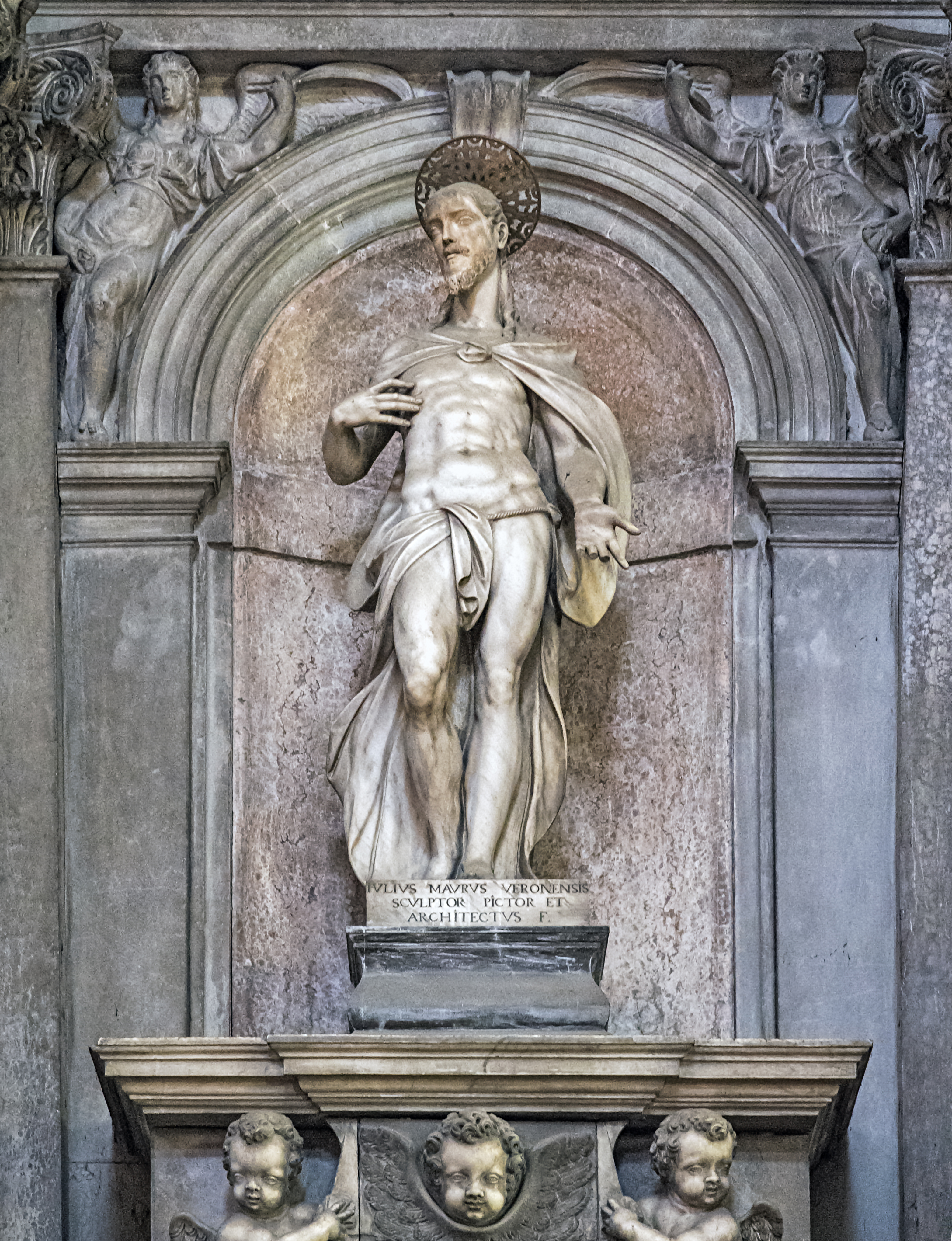 San Salvatore – Monument to Andrea Dolfin - The Savior by Giulio Angolo del Moro.